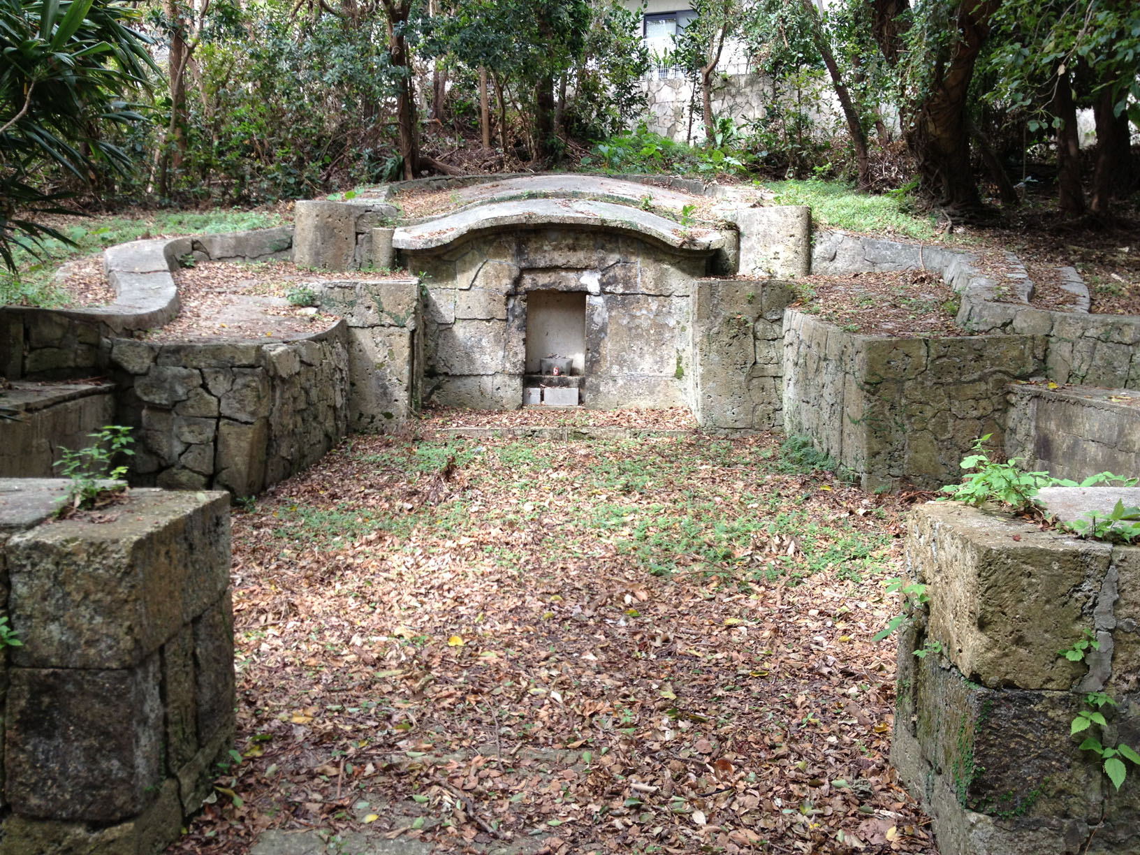 The Ie Udun Tomb, Naha, Okinawa, Japan